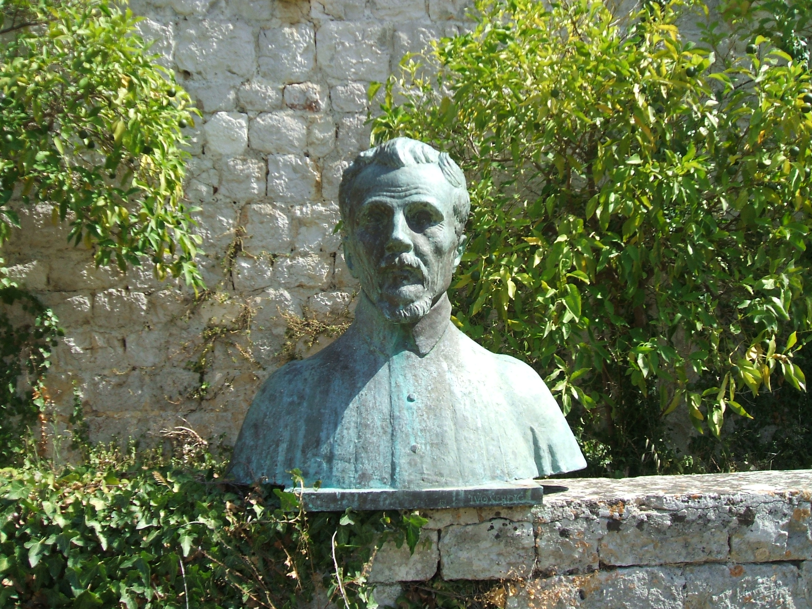 Sculpture of Hanibal Lucic